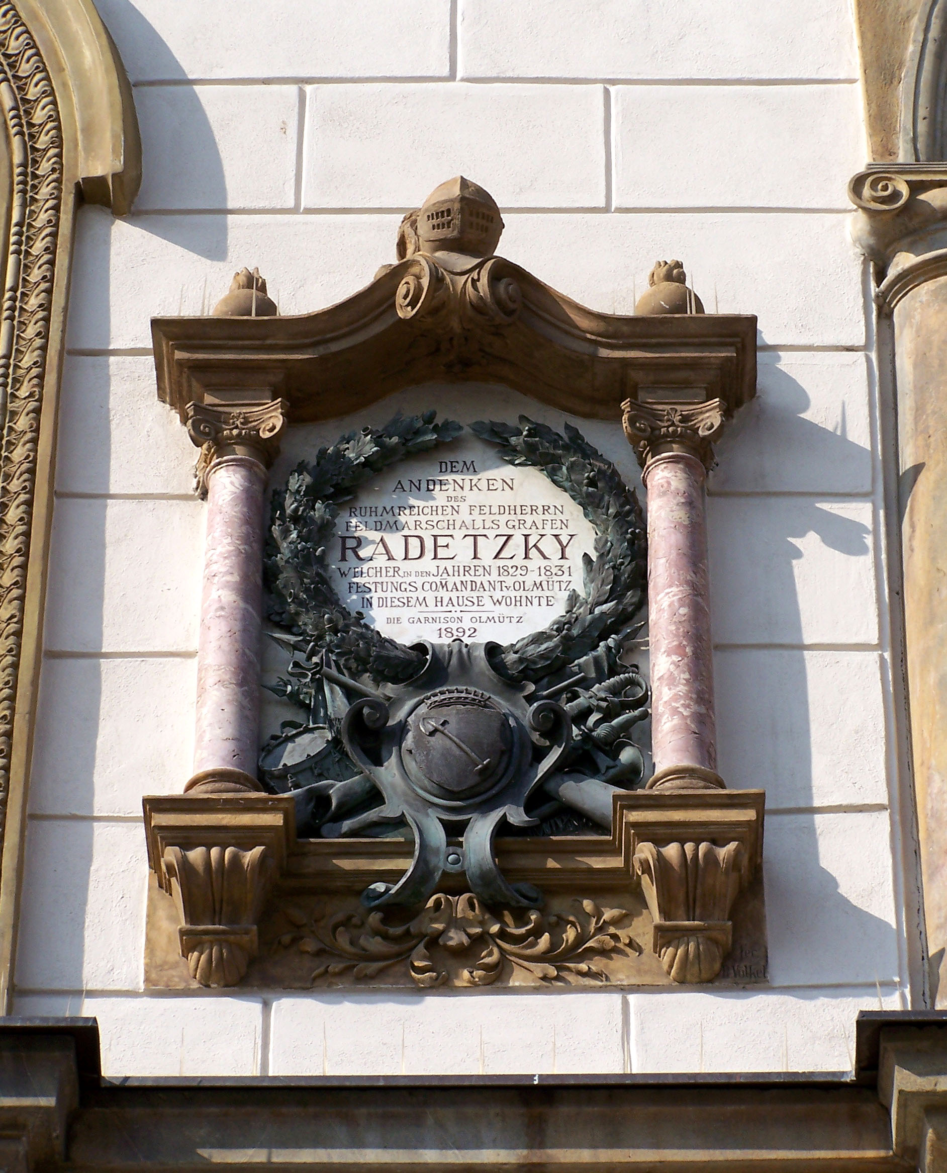 Memorial plaque at the building where Count Radetzky lived in 1829-1831 in Olomouc, Czech Republic